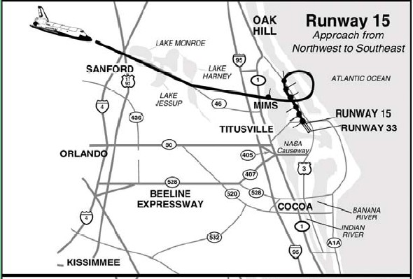 SpaceShuttle landing path to runway 15 from north